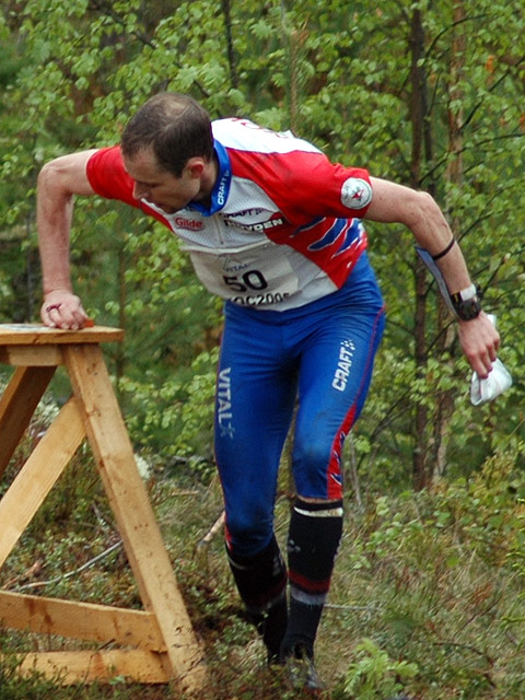 Holger Hott at the Nordic Championships in Notodden, Norway 2005.